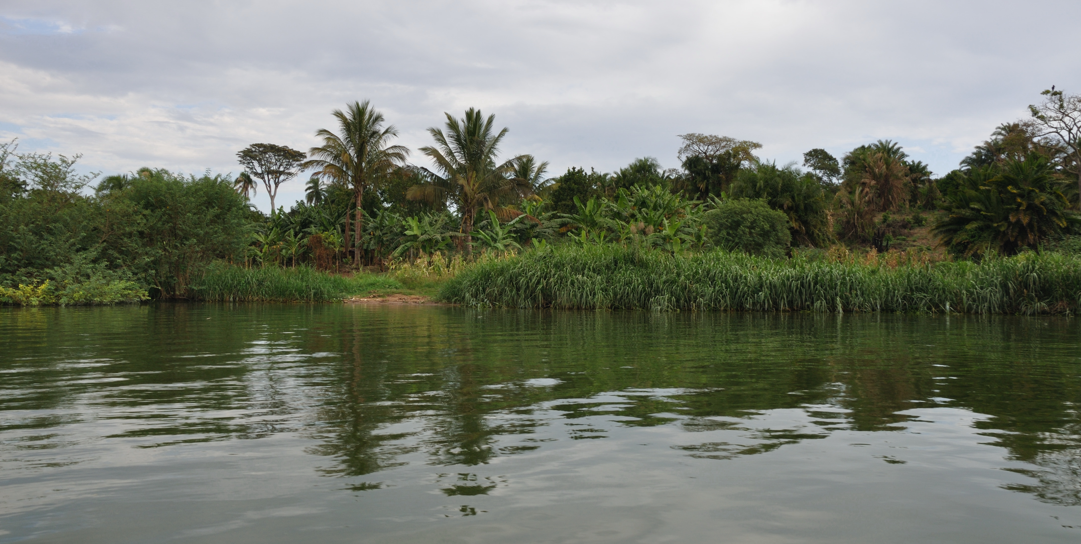 Uganda, Boat trip on Lake Victoria